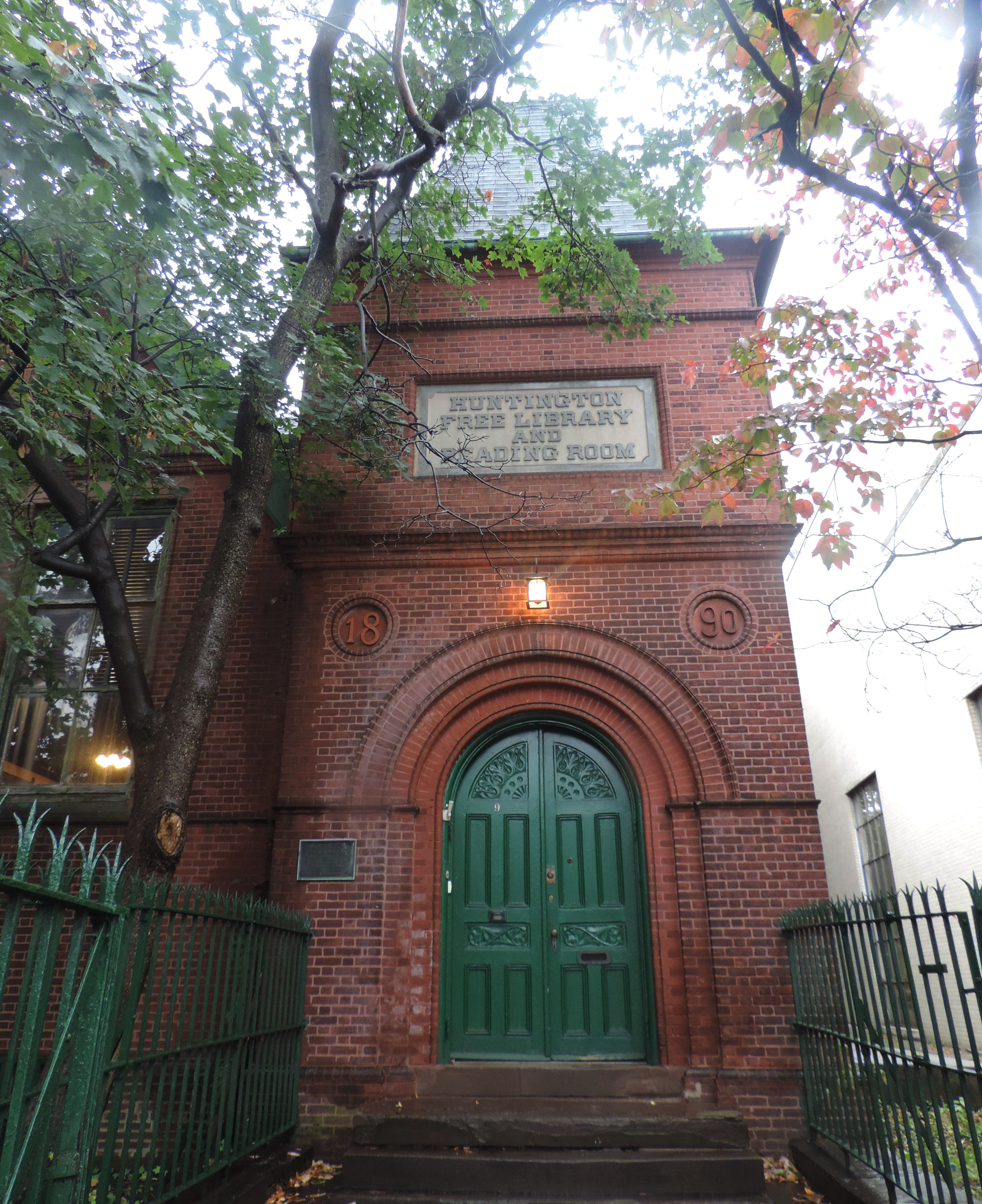 Entrance, from Lane Ave.